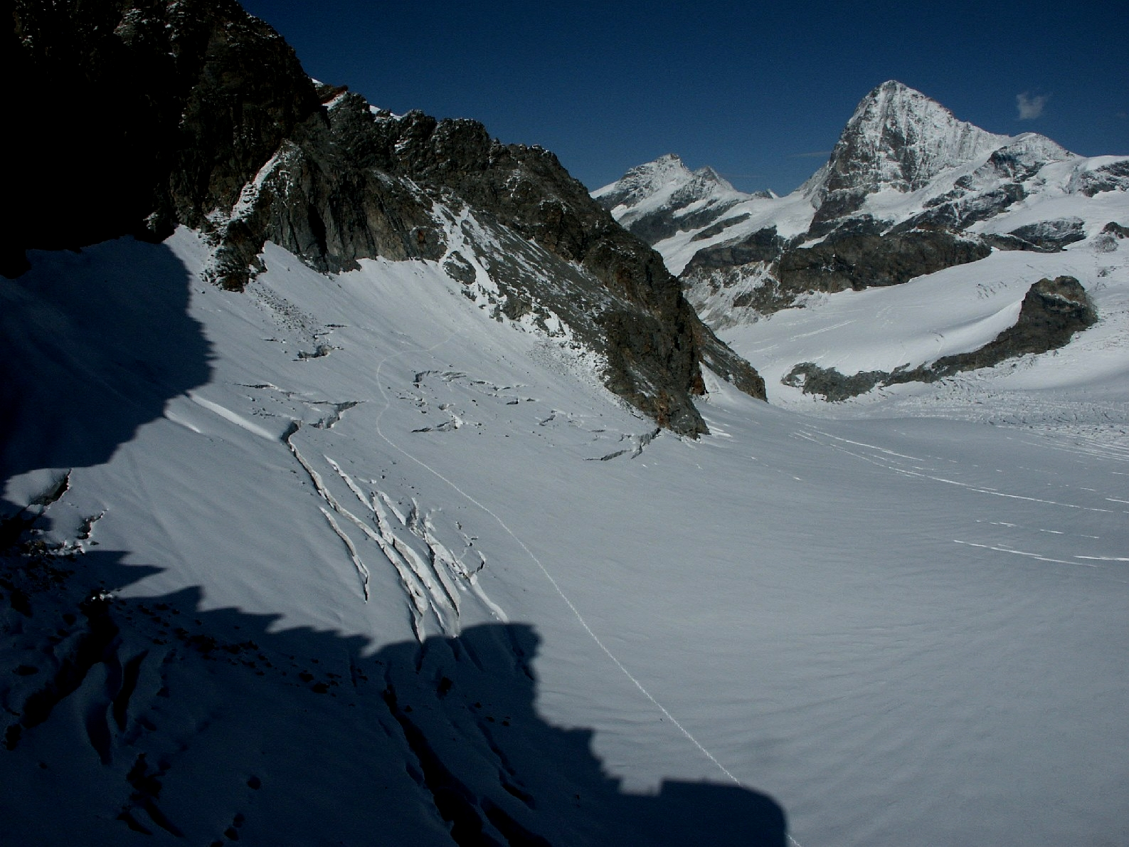 From Cabane de Bertol